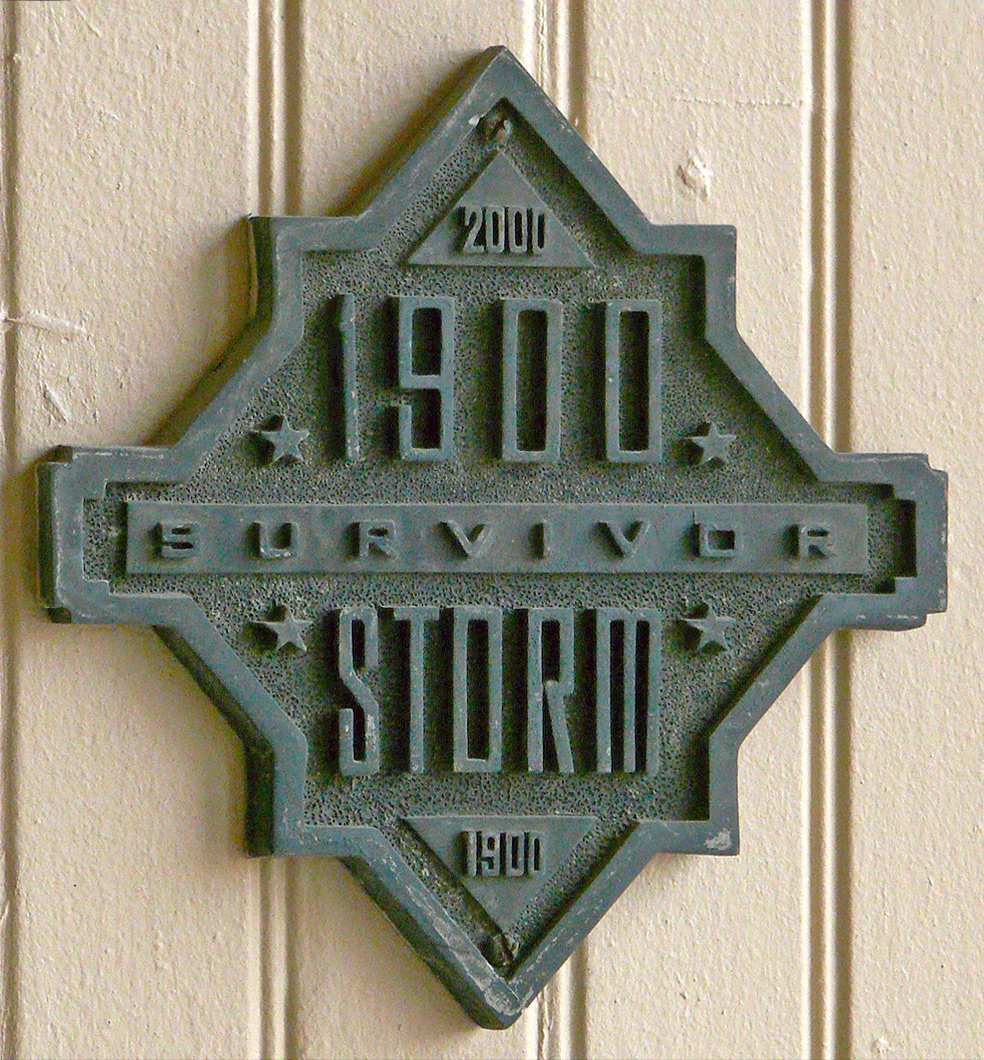 This plaque commemorating the endurance of Galveston historic homes to the Great Storm of 1900. In 2000 (100 years) the Galveston Historical Society supplied these plaques to all who applied and were qualified.